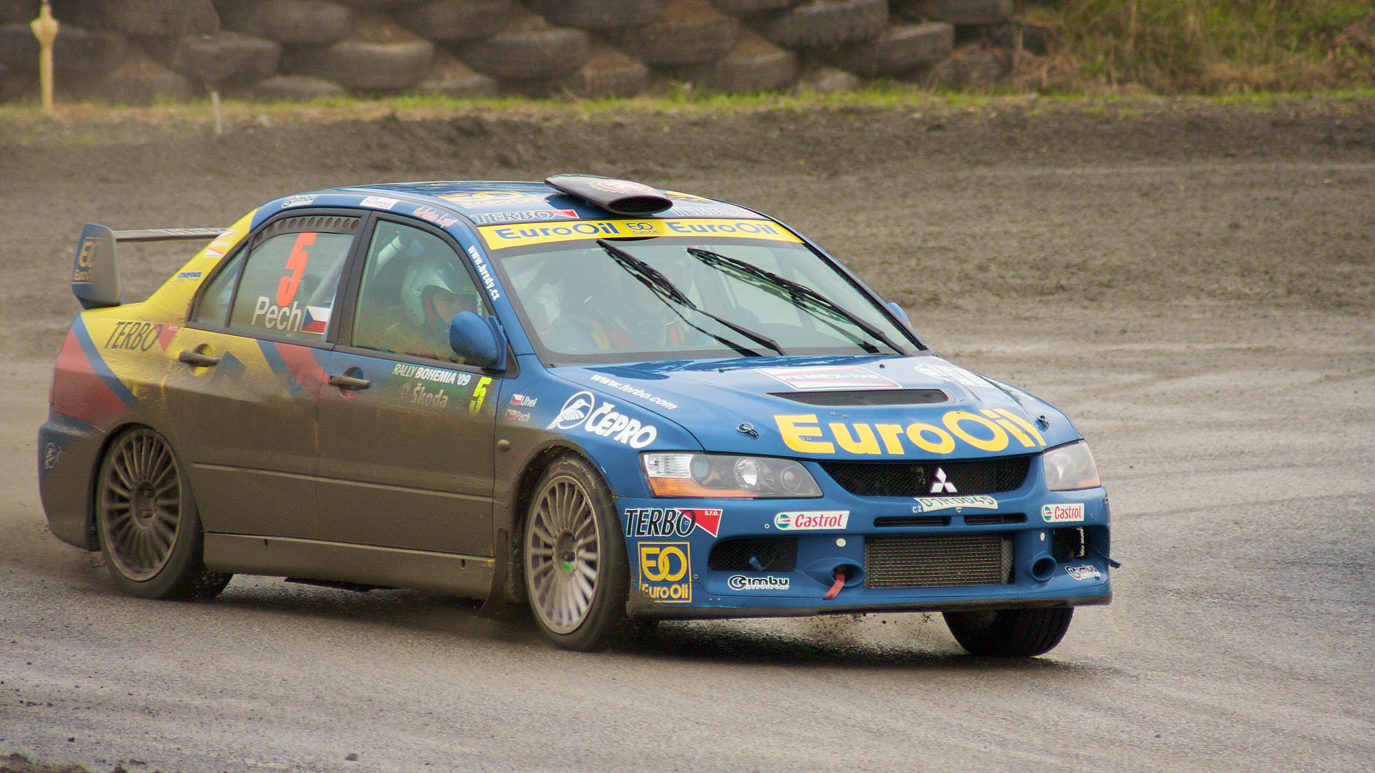 Václav Pech, Mitsubishi Lancer Evolution IX, Rally Bohemia 2009